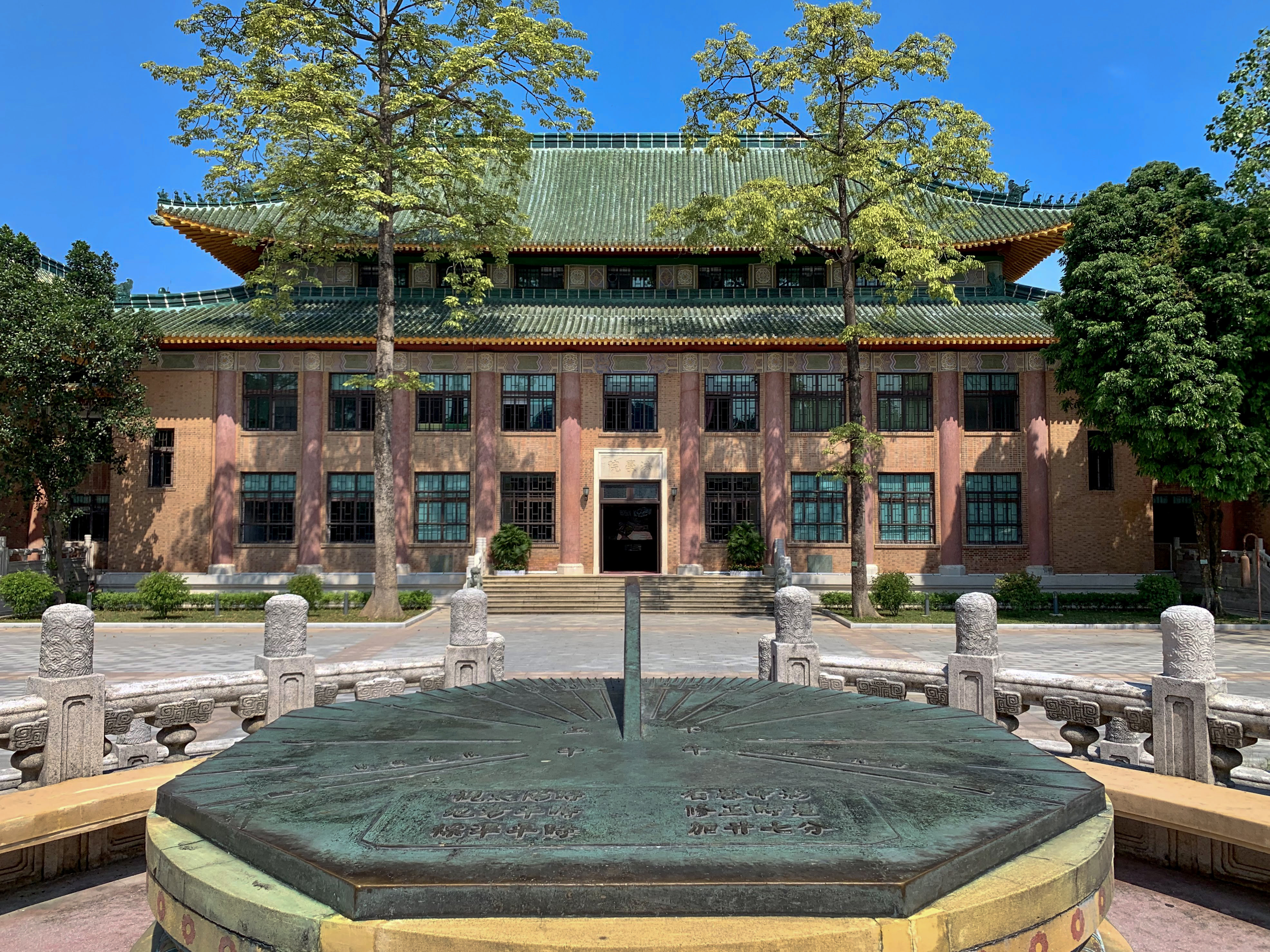 Building No.12 and the Sundial in South China University of Technology Wushan Campus (North Campus).